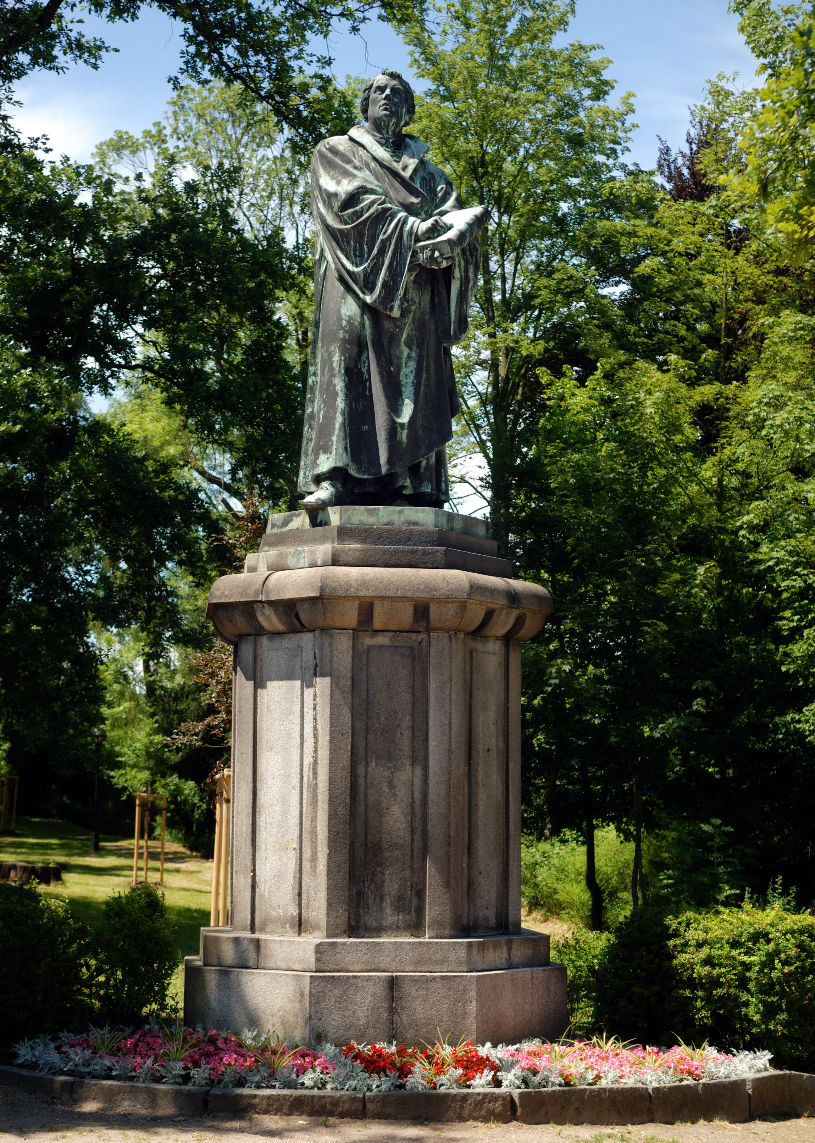 This image shows the Luther memorial in Kirchberg, Saxony, Germany.